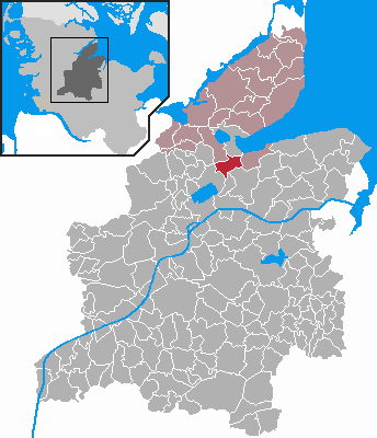 Locator maps of municipalities in Schleswig-Holstein - District Rendsburg-Eckernförde